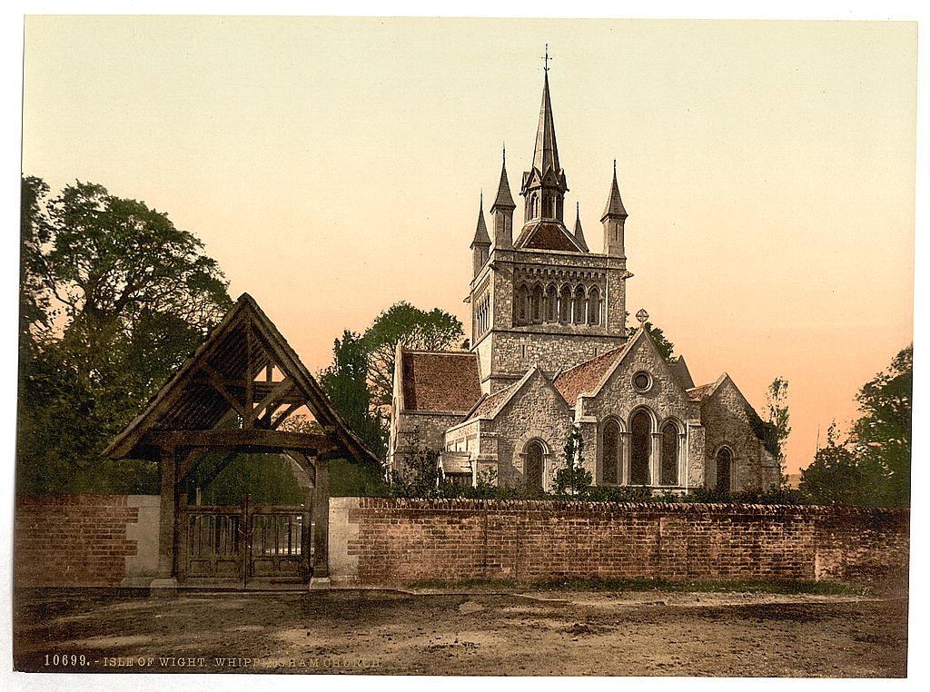 Whippingham Church, Isle of Wight, England.